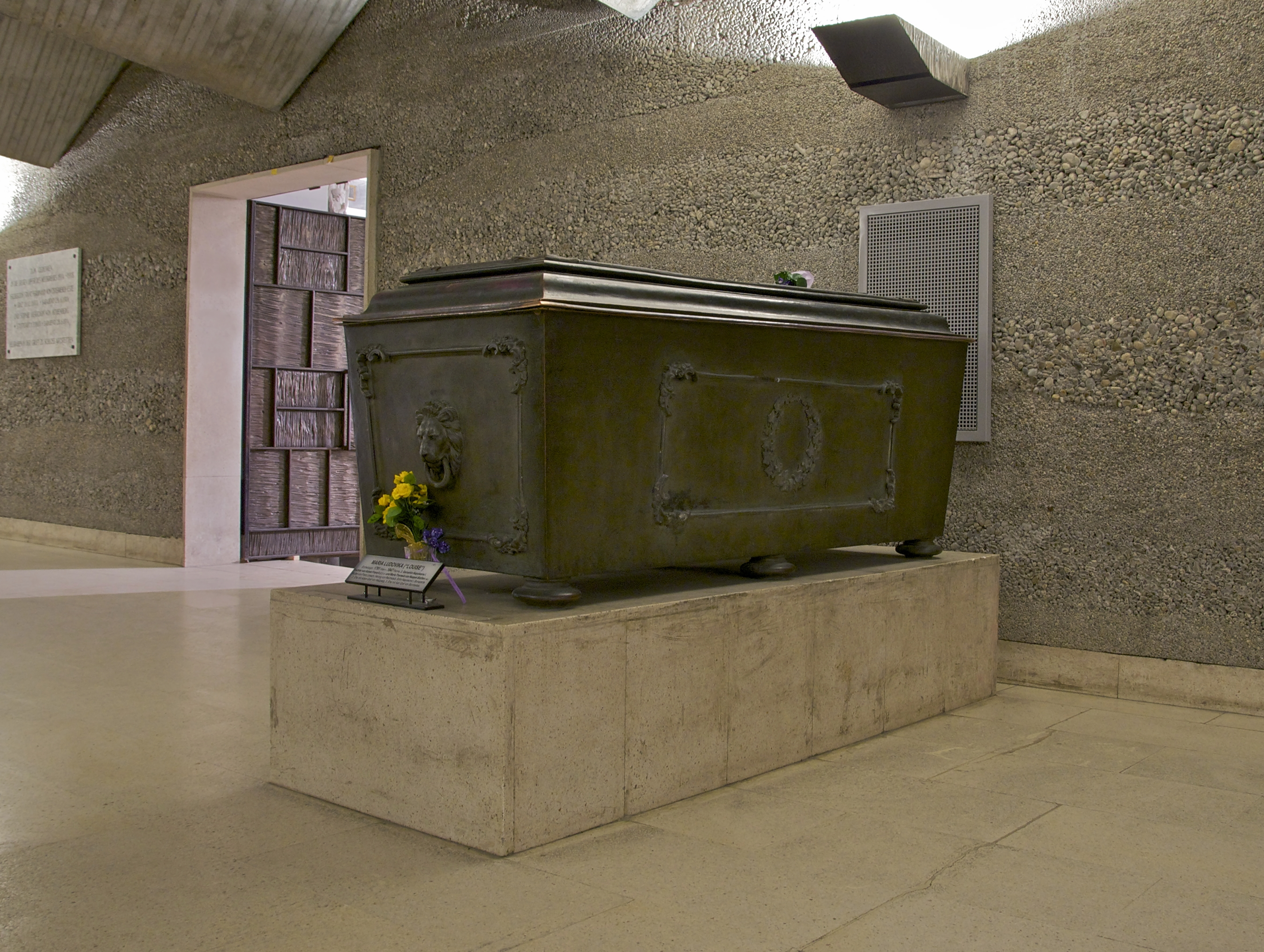 Sarcophagus of Marie-Louise (Archduchess Maria Ludovika), 2nd wife of Napoleon I, Empress of the French, Kapuzinergruft, Vienna, Austria.